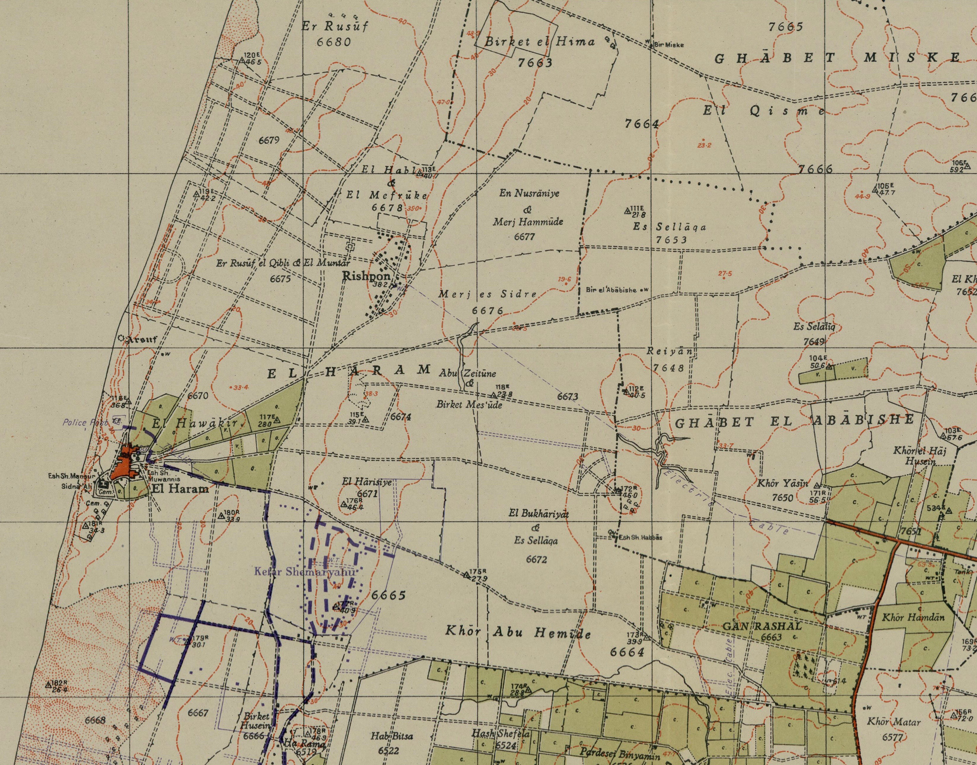 El-Haram from 1932 map, scale 1:20,000